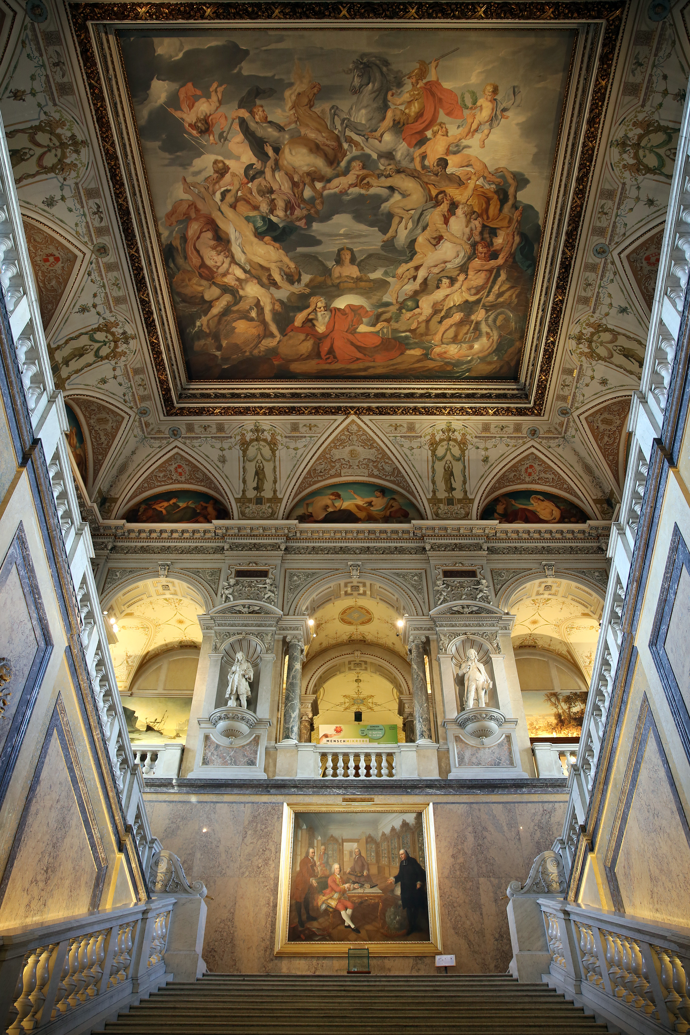 Museum of Natural History Native nameNHMLocationViennaCoordinates48° 12′ 18.48″ N, 16° 21′ 33.82″ E Established1889Web pageOffizielle HomepageAuthority control : Q688704 VIAF: 135516048 ISNI: 0000 0001 2112 4115 GND: 35915-4 SUDOC: 084049863 BNF: 123165438 institution QS:P195,Q688704